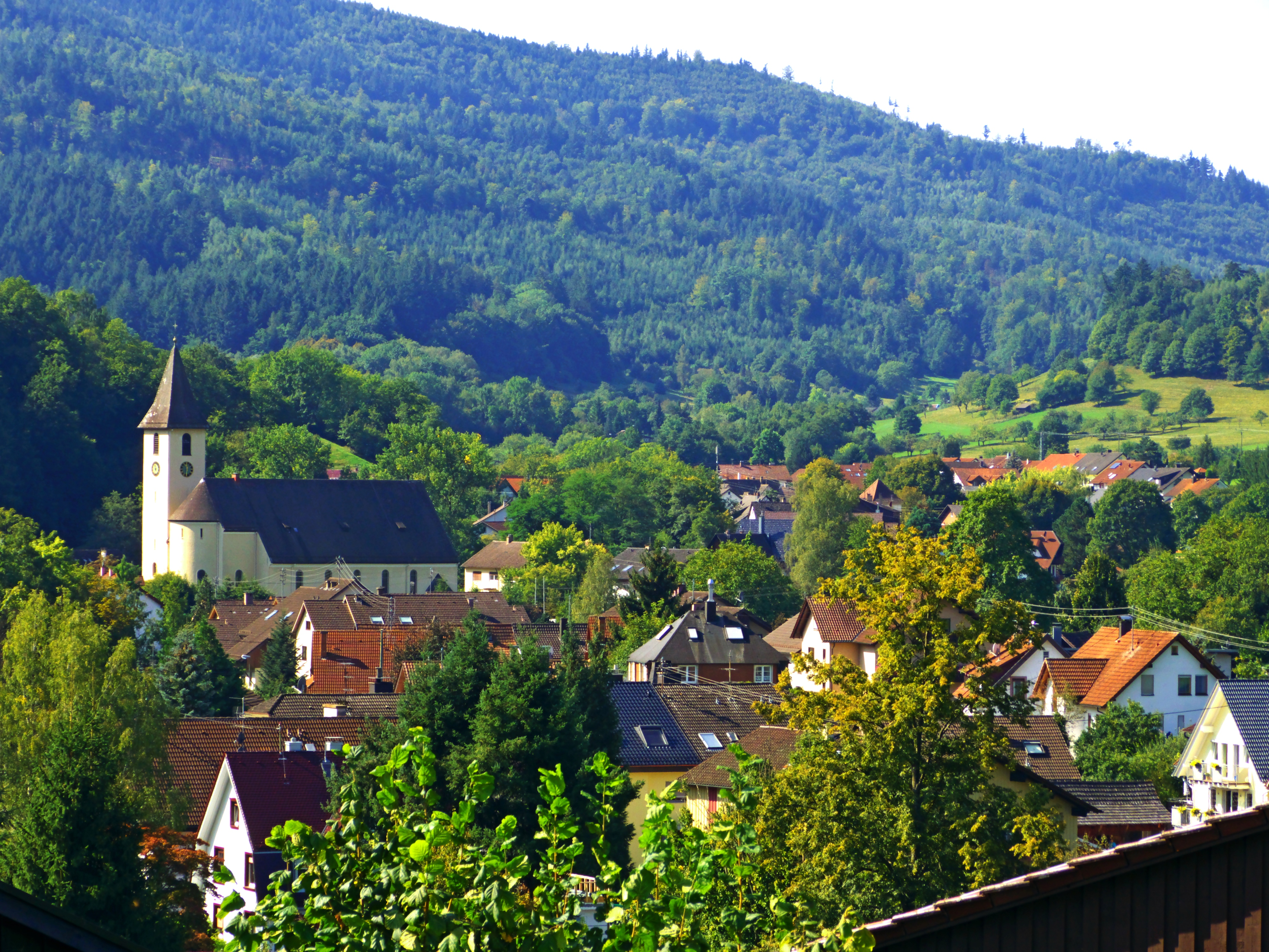 Church in Geroldsau